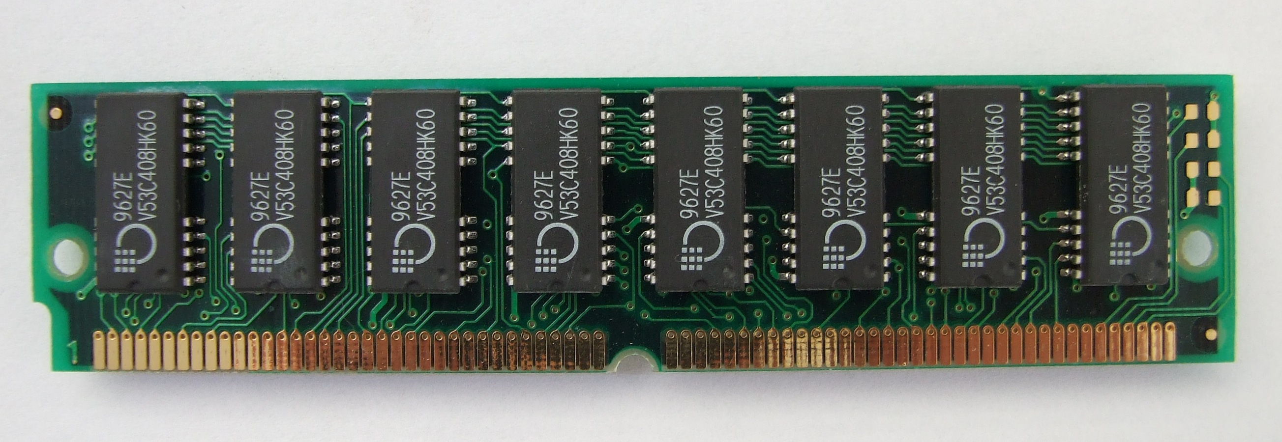 PS/2-SIMM memory module